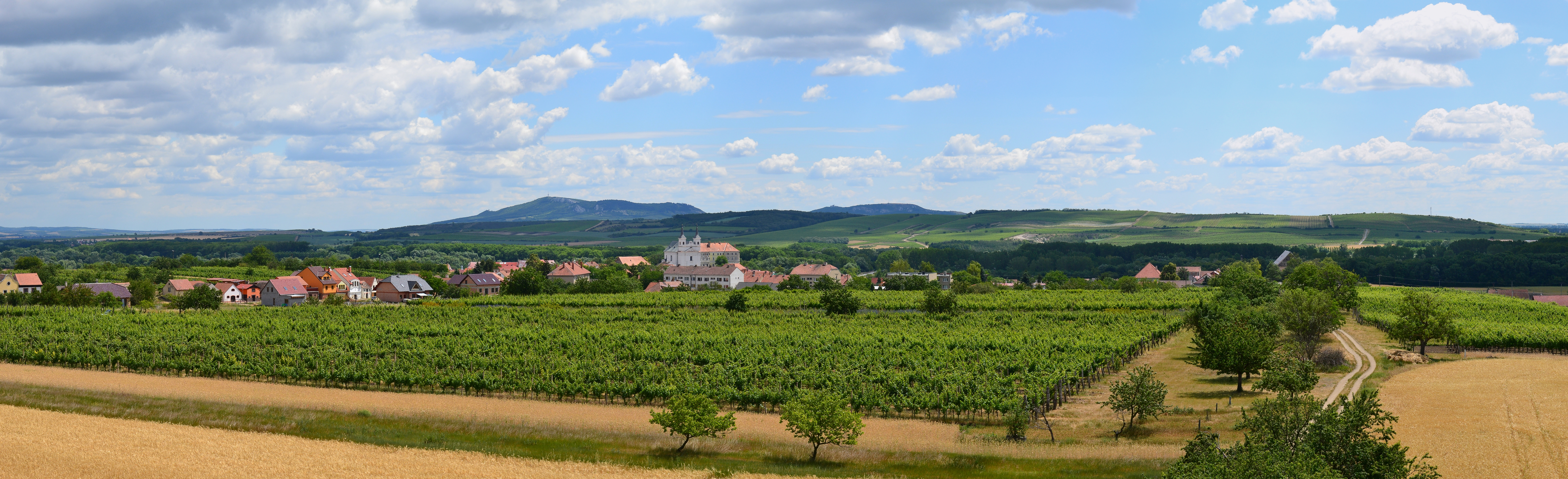 Drnholec (Dürnholz) and Pavlovské vrchy (Pollauer Berge) - Moravia